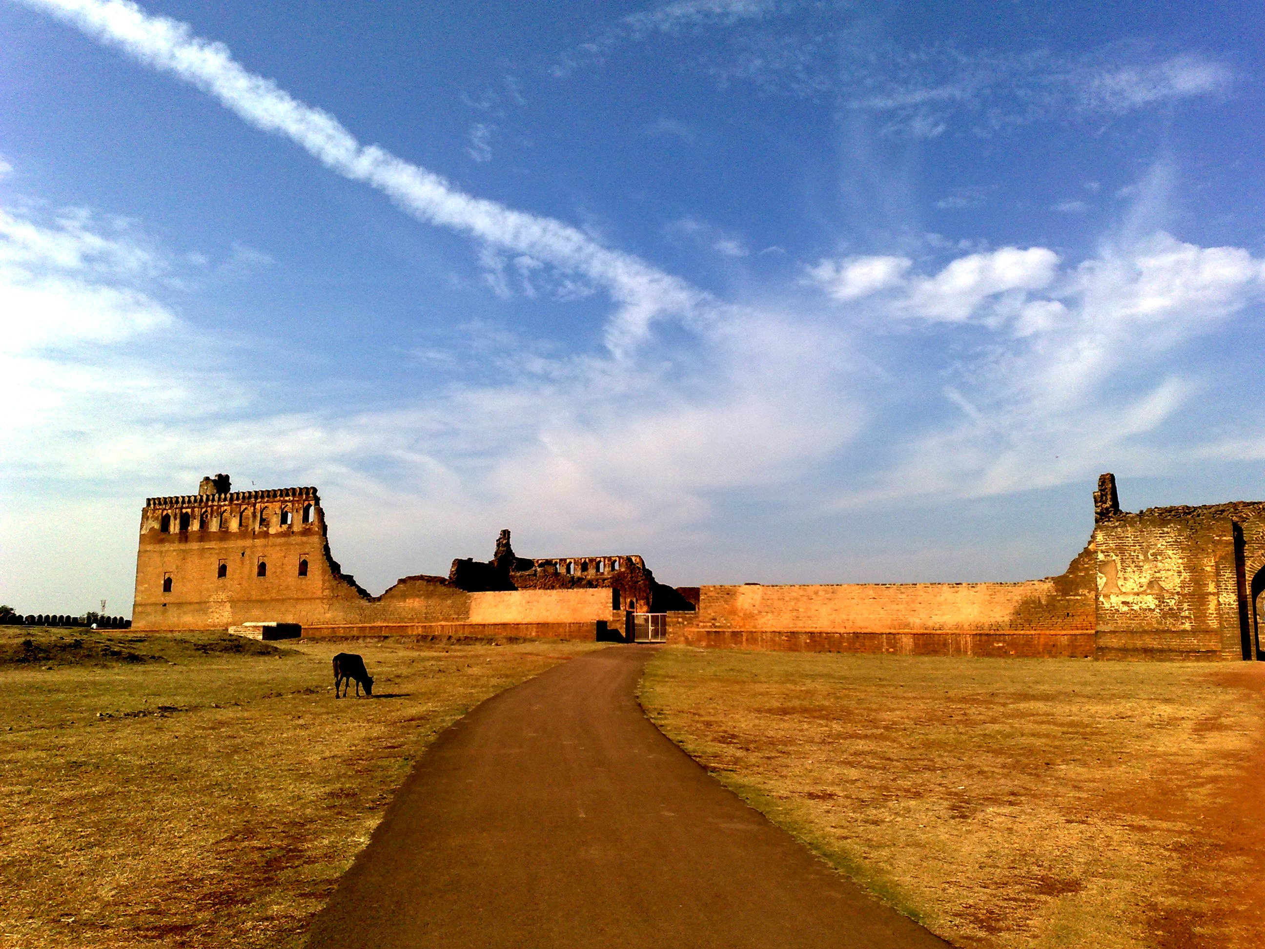 Bidar Fort, Karnataka